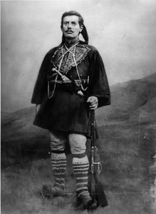 Georgios Kondylis as a Macedonian fighter